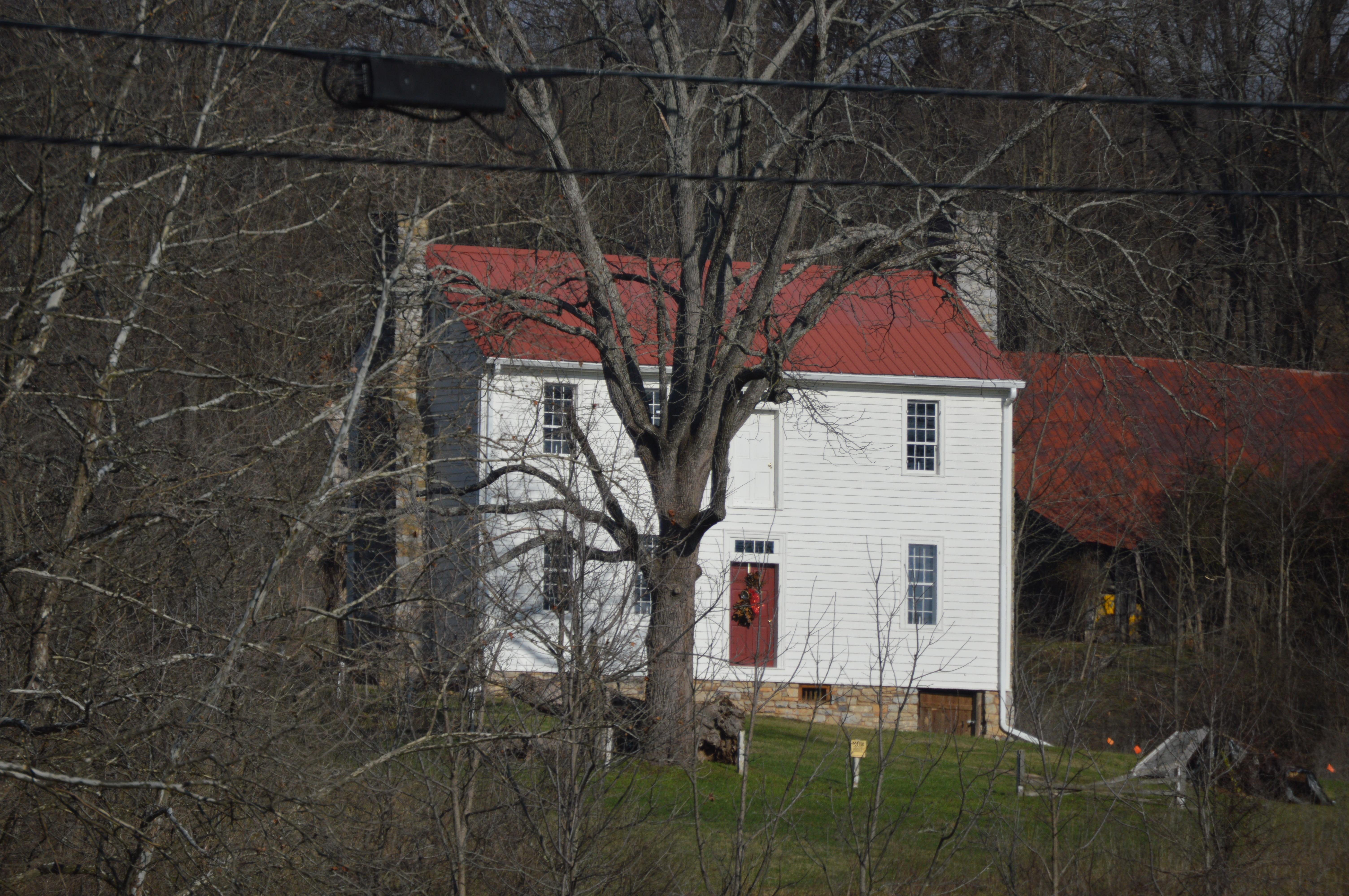 Front and western side of Walnut Grove, located at 14081 U.S. Route 11 between Bristol and Abingdon in Washington County, Virginia, United States. The single-story section is a later construction. Built in 1815, it is listed on the National Register of Historic Places.